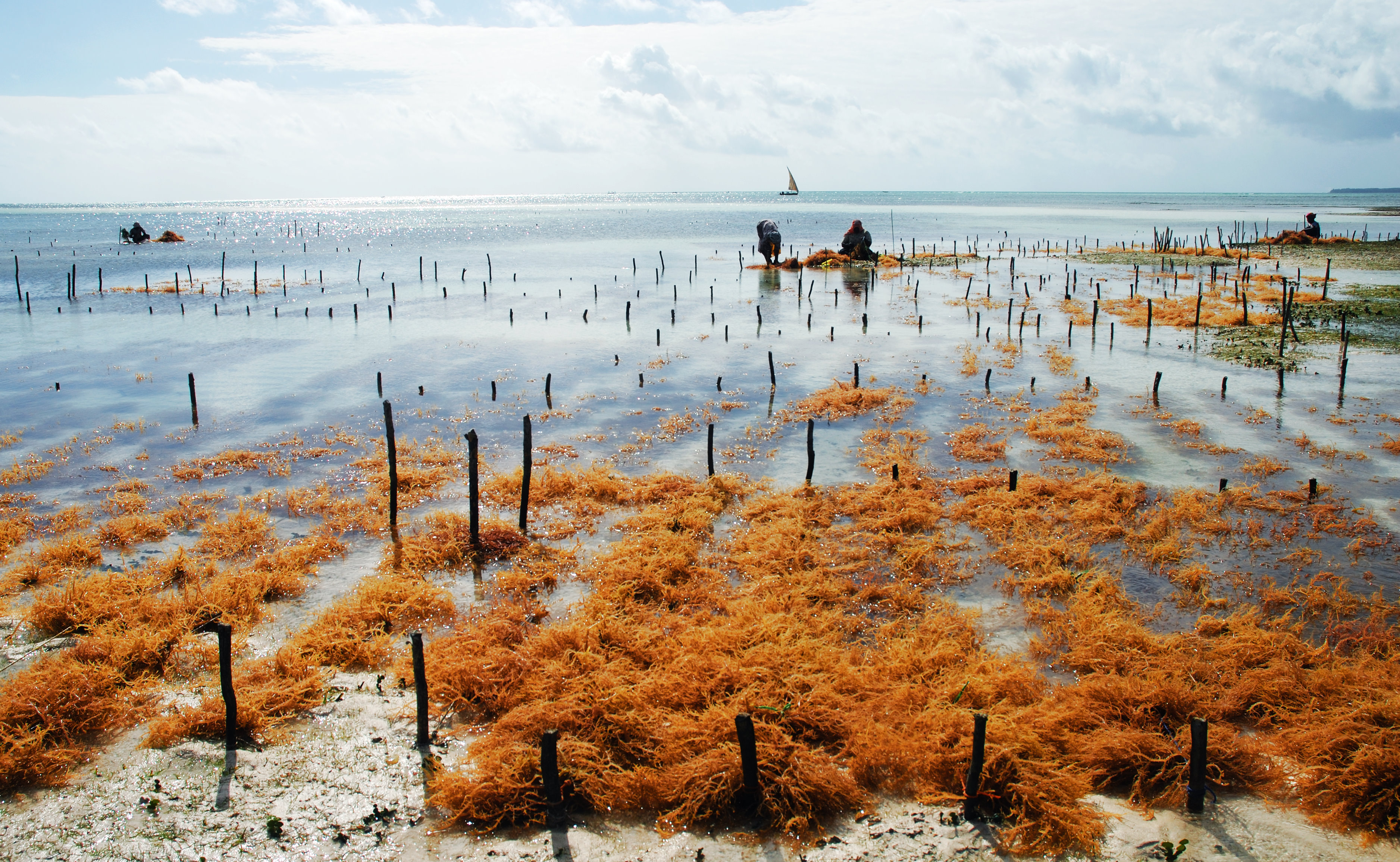 Seaweed farming at Uroa, a fishermen village on Zanzibar's center-east coast